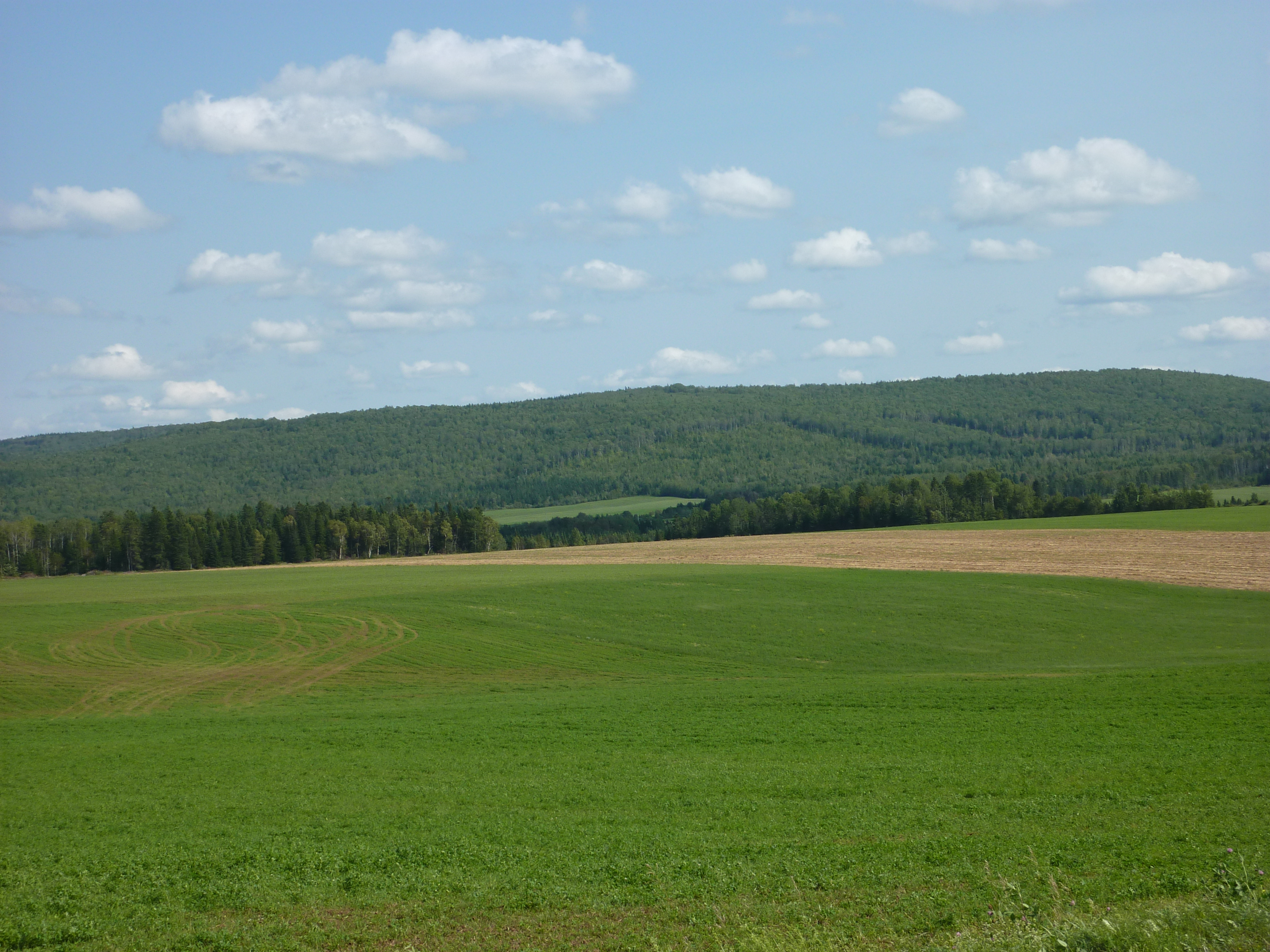 Field at Saint-Zénon-du-Lac-Humqui, Qc